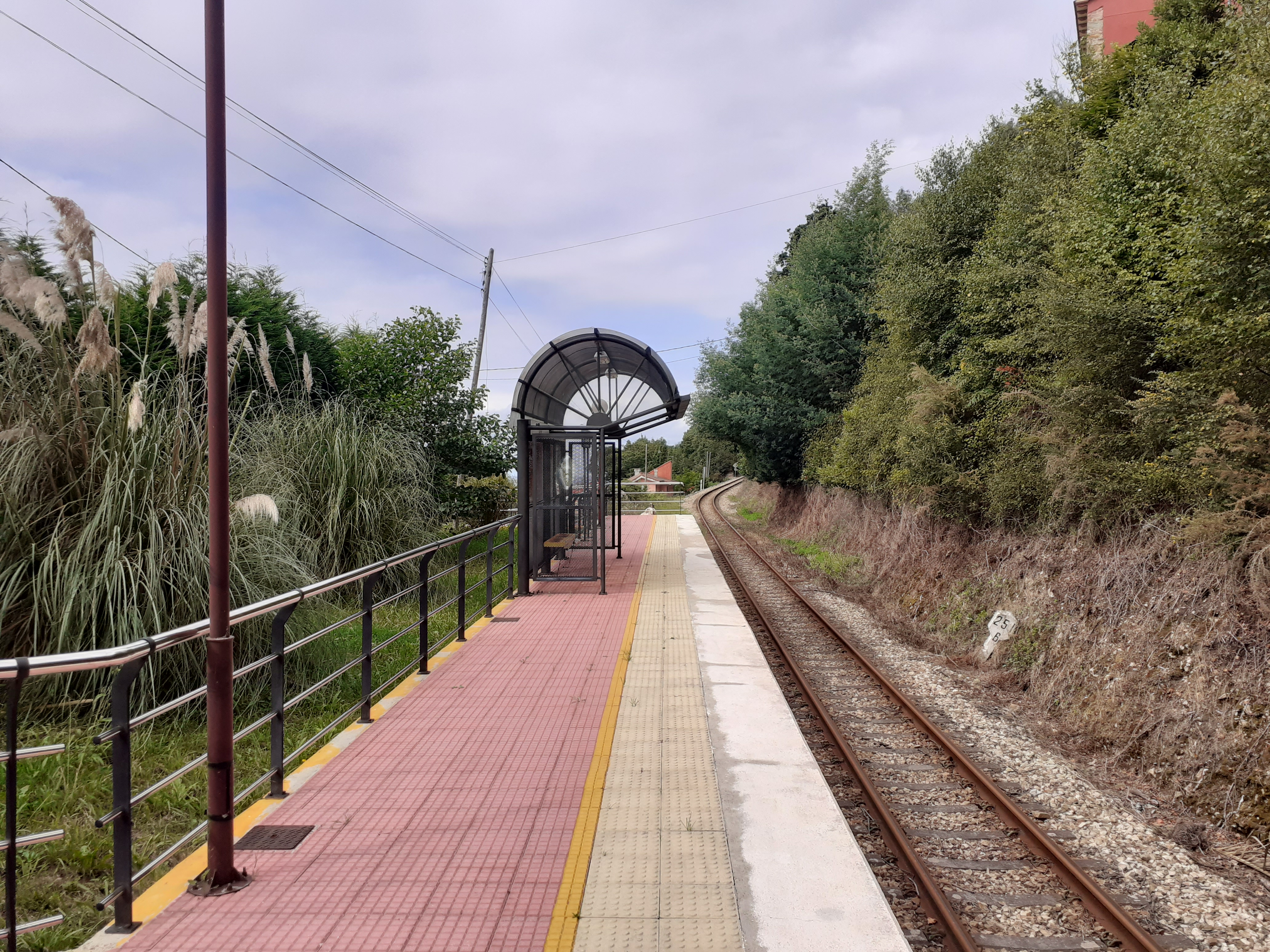 Railway halt on the Ferrol-Gijón narrow gauge railway line.